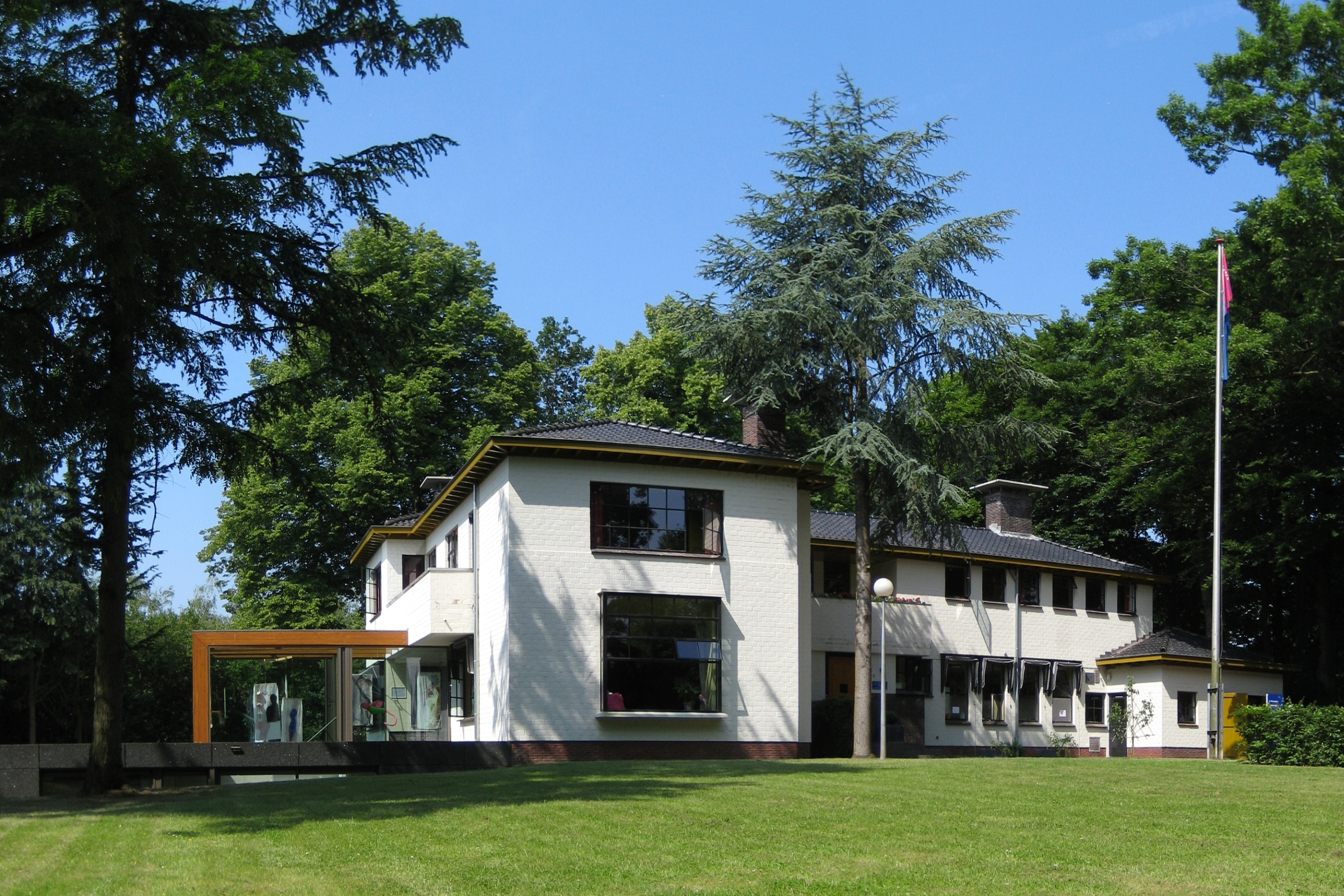 House (1933) in the style of Frank Lloyd Wright in the Dutch city of Groningen. It was designed by the Dutch architect Evert van Linge (1895-1964).